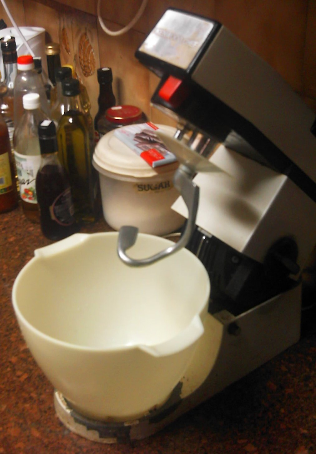 A Kenwood mixer affixed with a dough hook